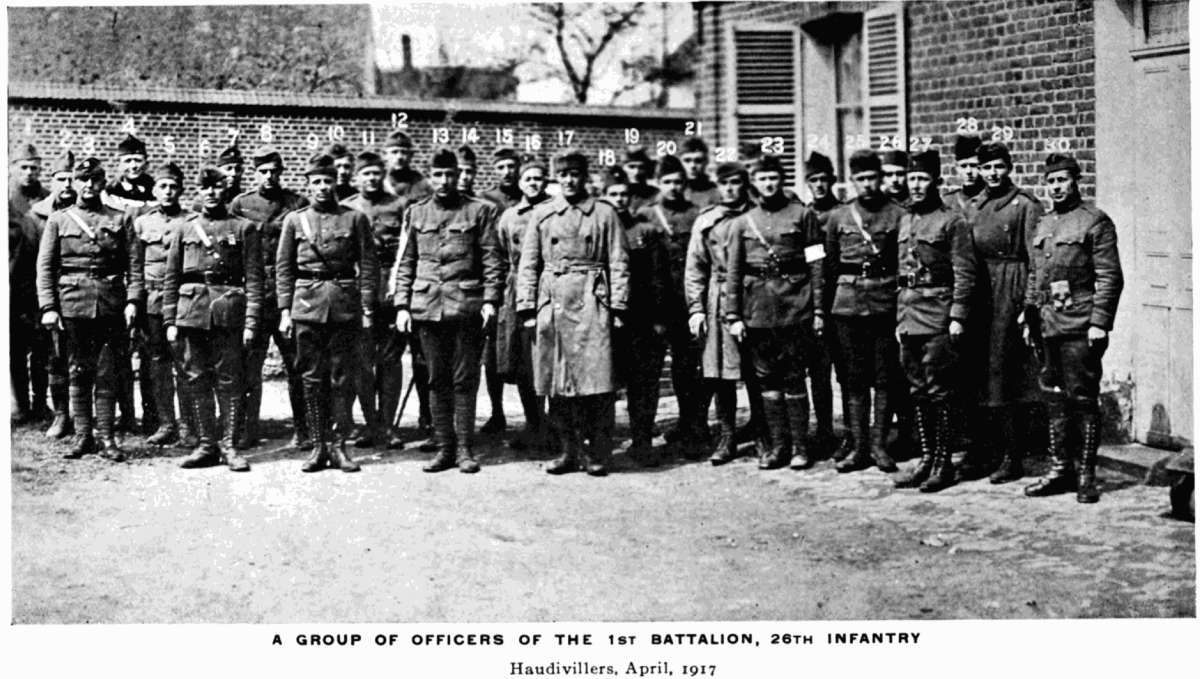 A group of officers of the American Expeditionary Forces, 1st Battalion, 26th Infantry Regiment Haudivillers, Picardy, France (1) Lt. Einar H. Gausted; (2) Lt. George Jackson, killed May 28, 1918; (3) Capt. Amiel Frey, killed May 27; (4) Lt. Grover P. Cather, killed May 28; (5) Lt. Charles H. Weaver; (6) Lt. Wesley Freml, killed June 29; (7) Lt. James M. Barrett; (8) Lt. Roland W. Estey; (9) Major Theodore Roosevelt Jr.; (10) Lt. B. Vann; (11) Lt. George P. Gustafson, killed June 6; (12) Lt. Tuve J. Floden; (13) Lt. Rexie E. Gilliam; (14) Lt. John P. Gaines; (15) Lt. Lewis Tillman; (16) Lt. Percy E. Le Stourgeon; (17) Lt. Brown Lewis; (18) Capt. Hamilton K. Foster, killed Oct. 2; (19) Lt. Paul R. Caruthers; (20) Lt. M. Morris Andrews; (21) Lt. William C. Dabney; (22) Lt. Donald H. Grant; (23) Capt. E. D. Morgan; (24) Lt. Dennis H. Shillen; (25) Lt. Harry Dillon, killed Oct. 4; (26) Lt. Charles Ridgely; (27) Lt. Joseph P. Card; (28) Lt. Stewart A. Baxter; (29) Lt. Thomas D. Amory, killed Oct. 3; (30) Lt. Thomas B. Corneli